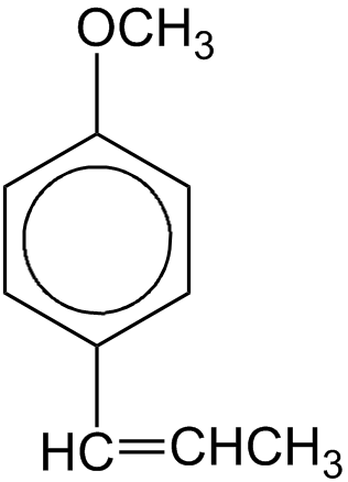 Anethol